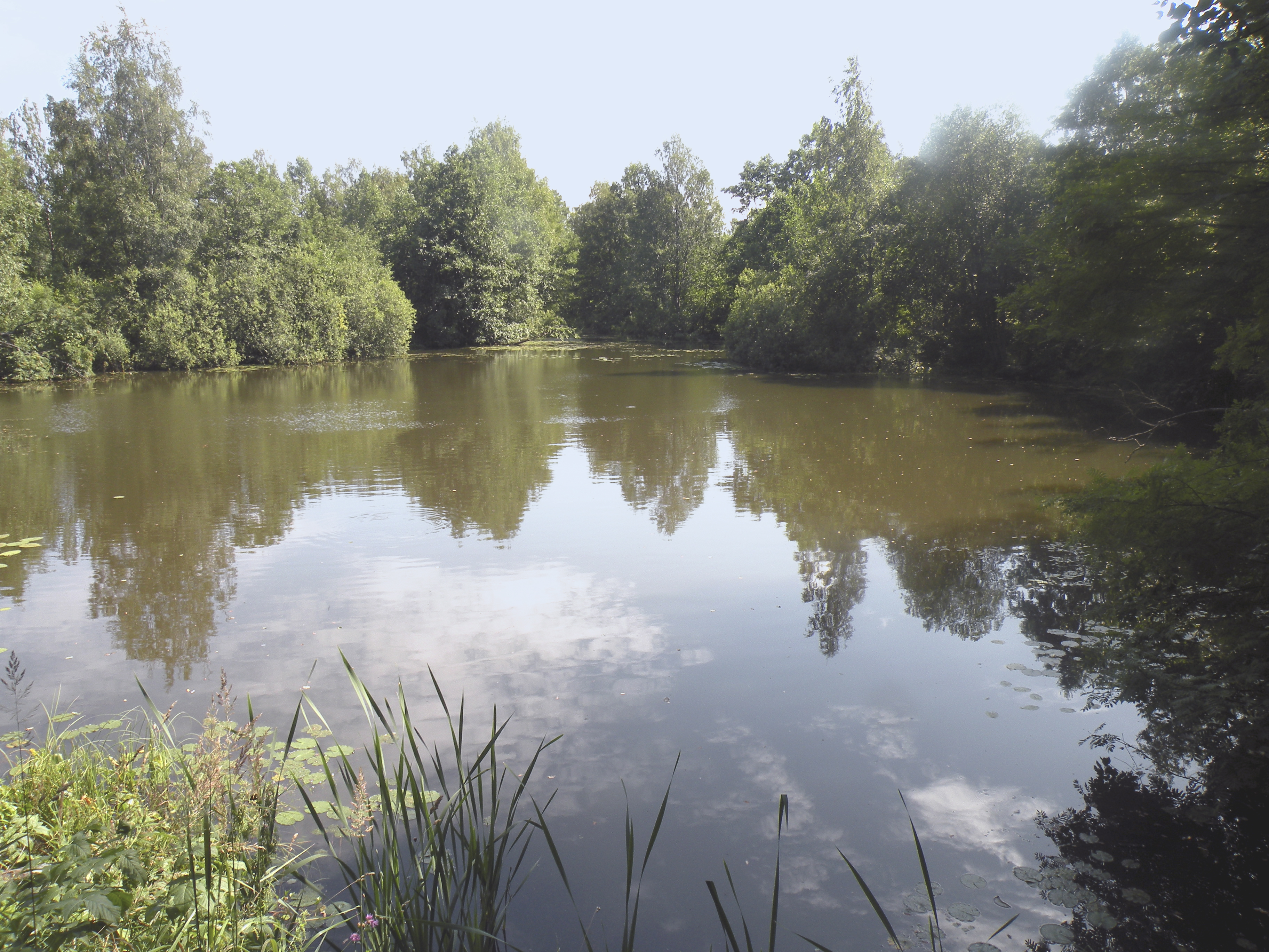 Озеро, образовавшееся на месте извлечения Гром камня. Pond at the Historical Memorial of Peter the Great in Lakhta, Saint Petersburg.